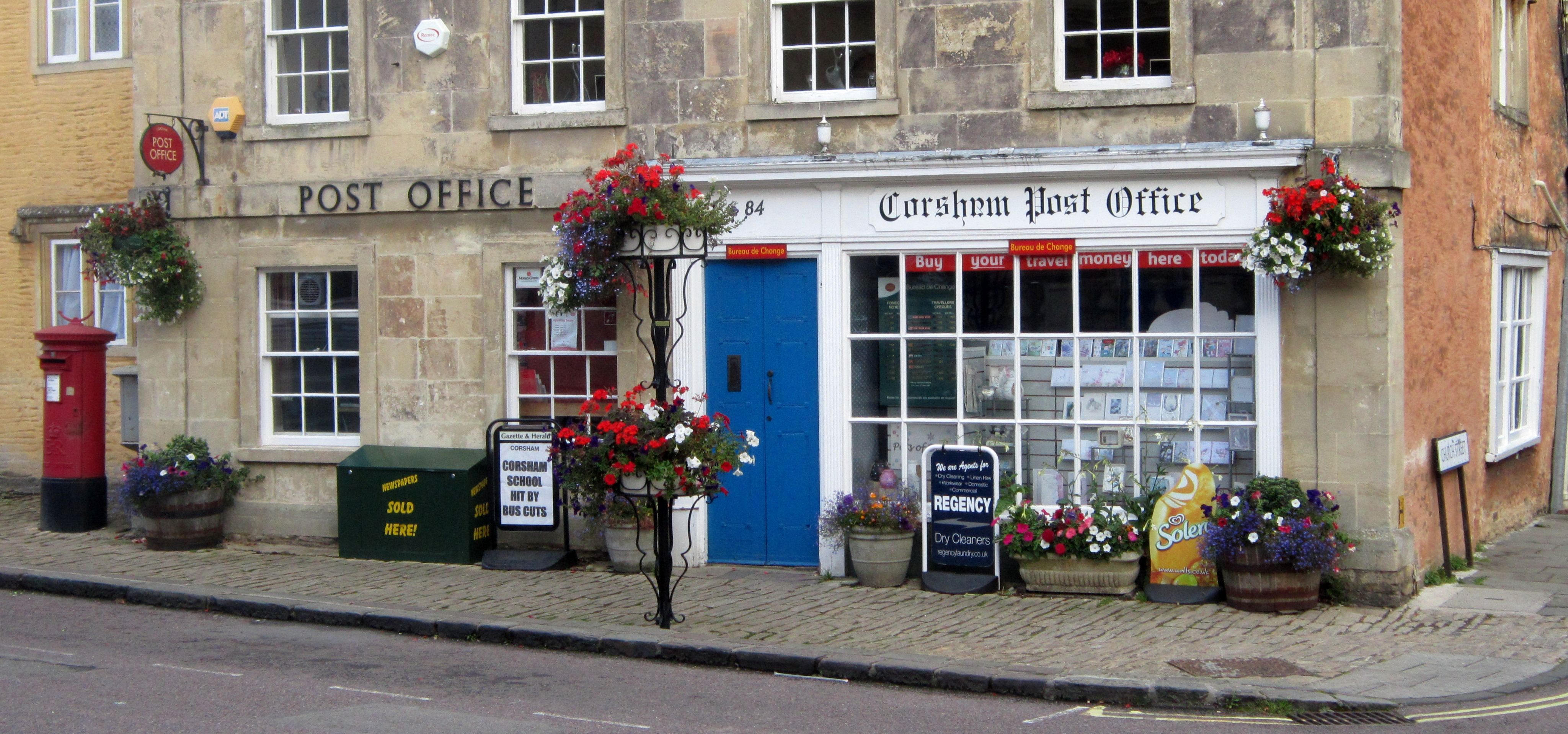 The Post Office in Corsham combines blackletter, traditional, and modern lettering.